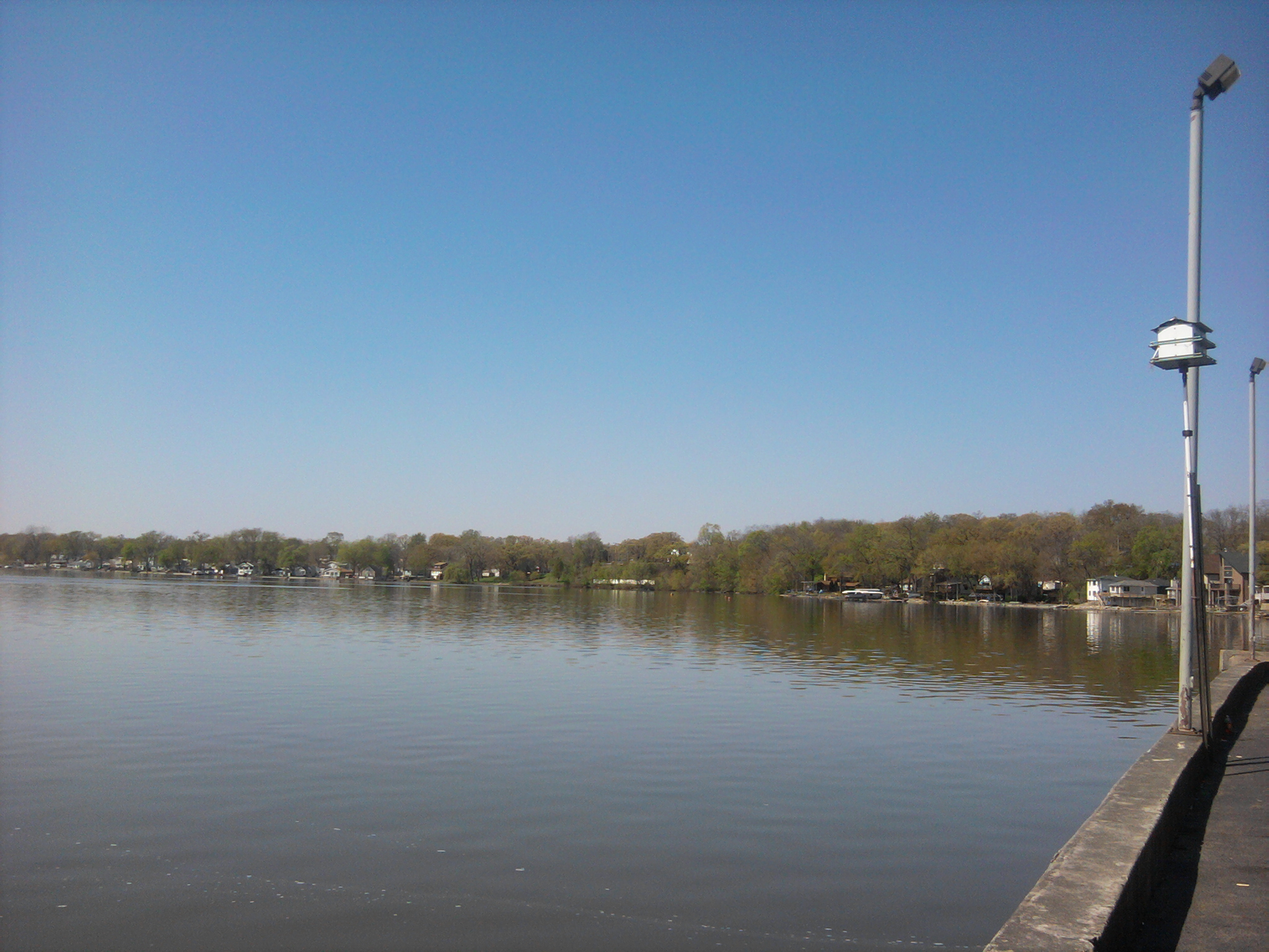 Cedar Lake, looking west